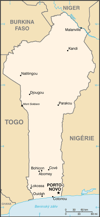 Map of Benin with Czech description.